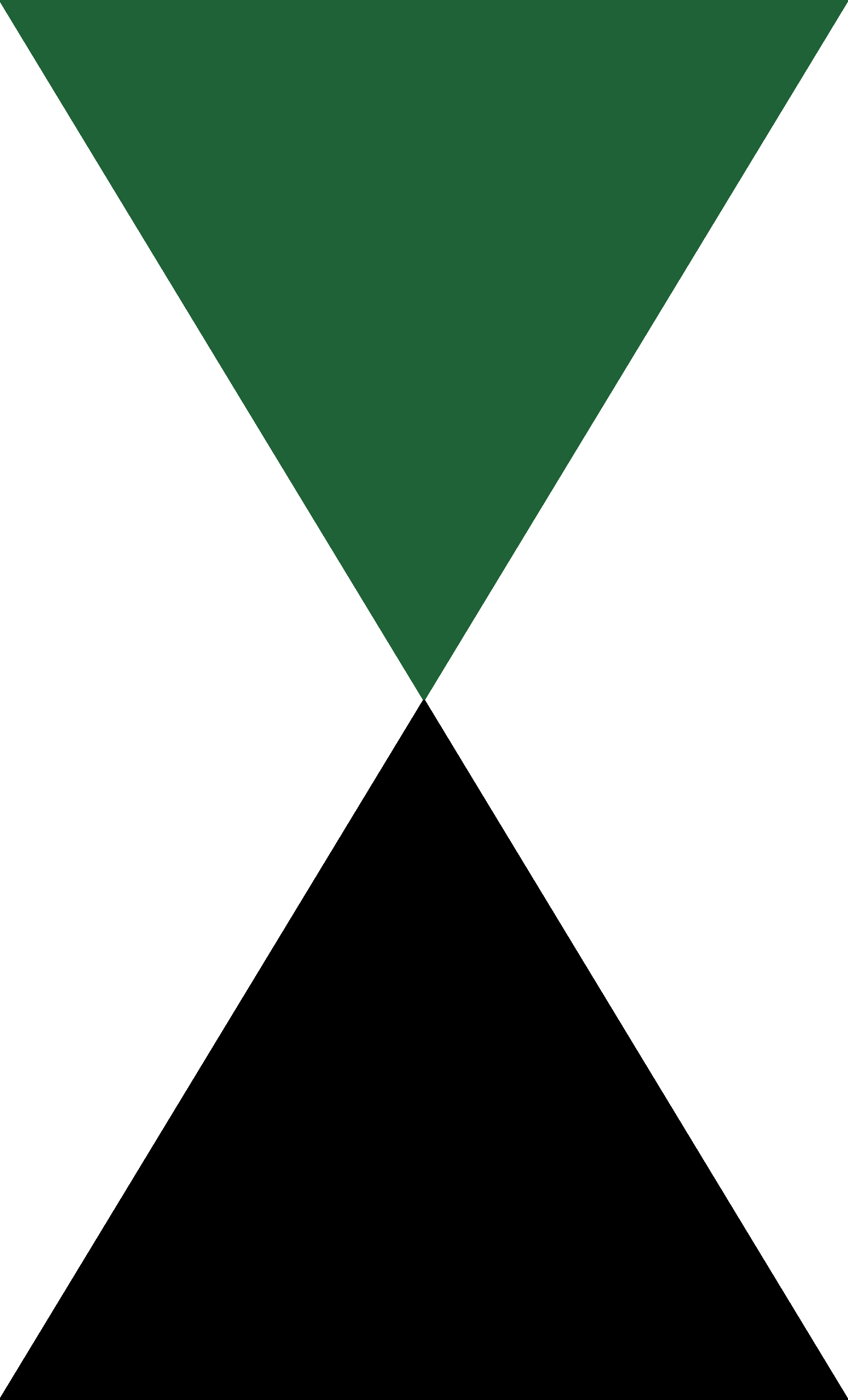 Tactical formation sign of the British 33rd Armoured Brigade during the Second World War. The unit was formally known as the 33rd Army Tank Brigade prior to June 1942 when it was redesignated the 33rd Tank Brigade. Finally it was further redesignated as the 33rd Armoured Brigade on 17 March 1944, and fought throughout the North West Europe campaign.